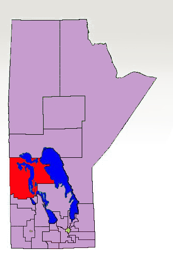 The 1998-2011 boundaries for the Swan River electoral district highlighted in red